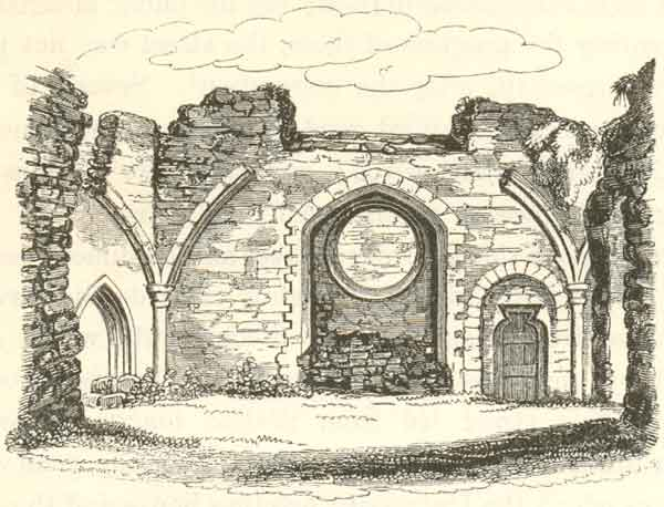 An engraving of the remains in 1800